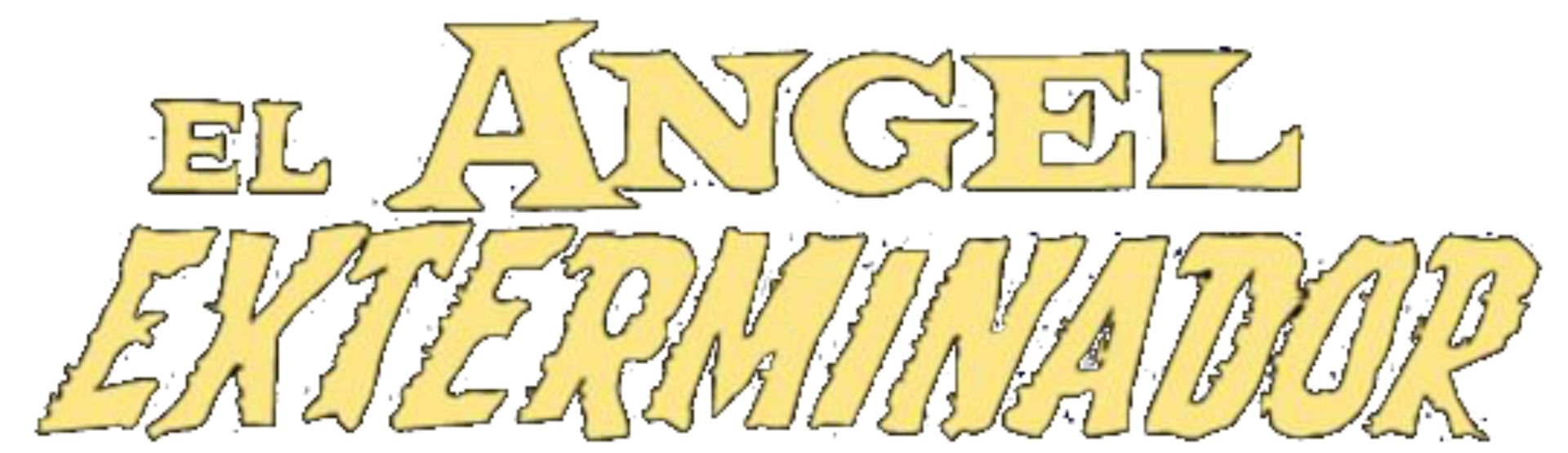 Logo from the movie "The Exterminating Angel" (El ángel exterminador).